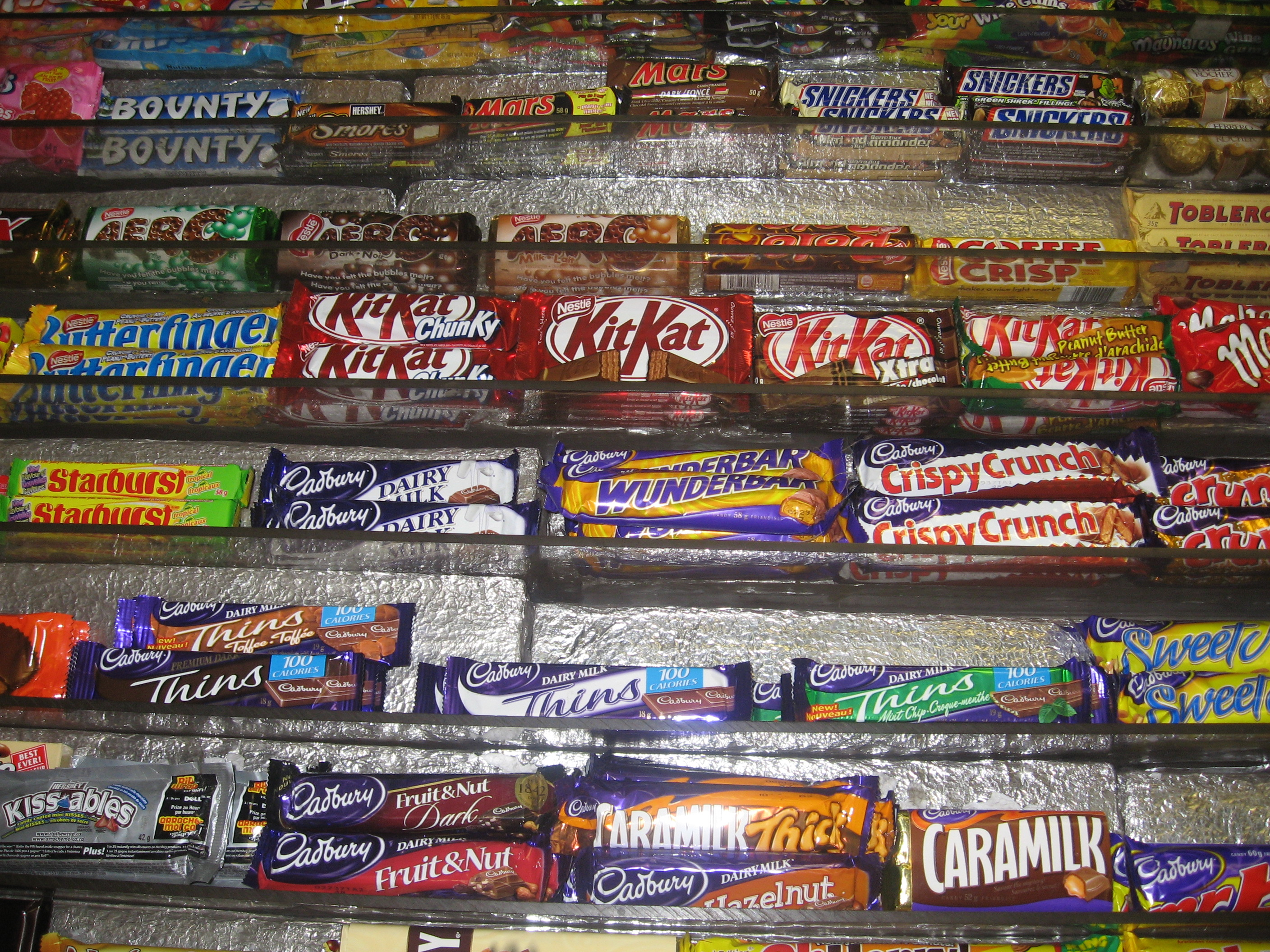 museum station Toronto